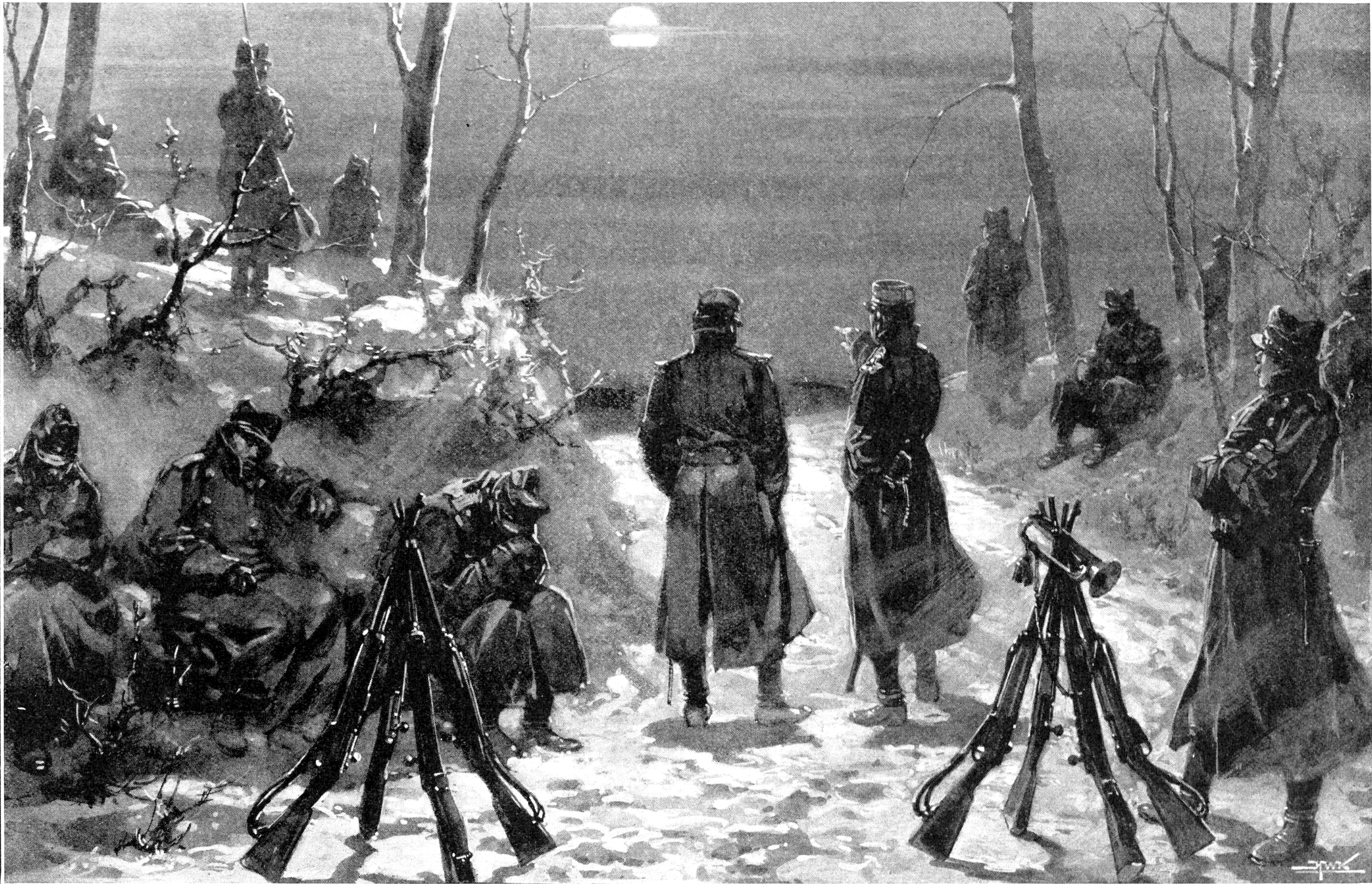 A vedette waiting on the highway at Braila for an expected outrage by the peasants